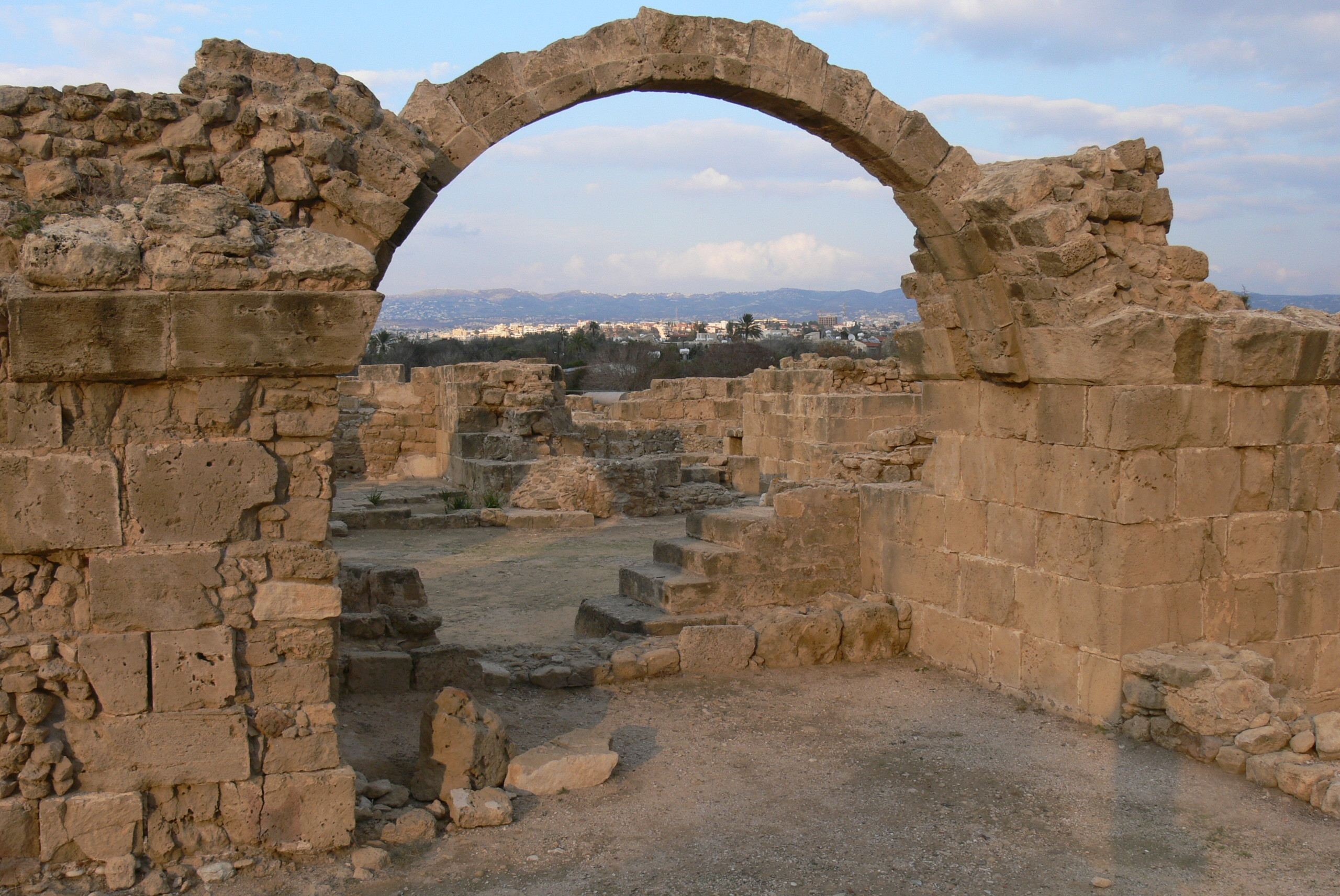 Paphos Archaeological Park. Saranda Kolones castle: Arch.